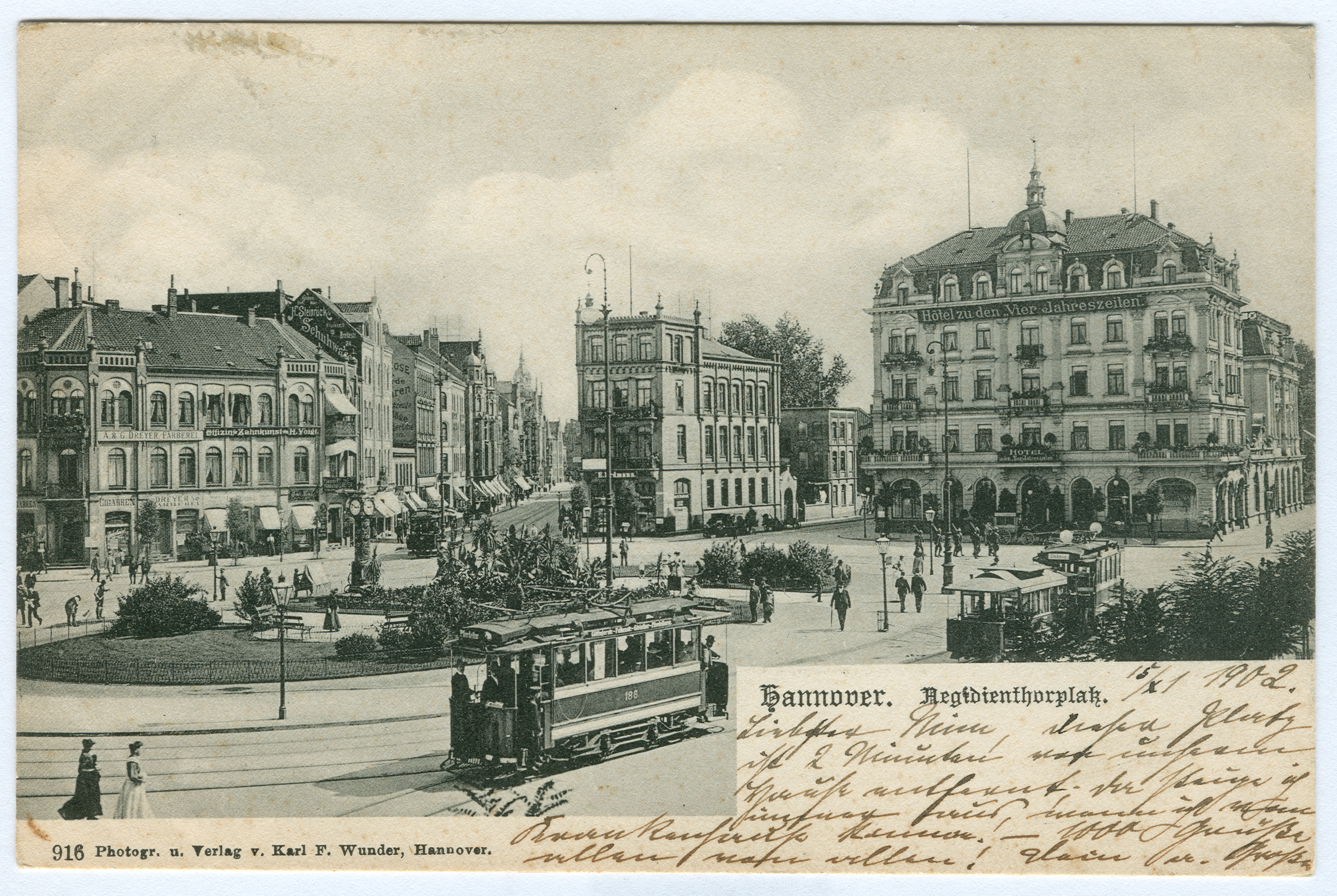 Hanover, Aegidientorplatz